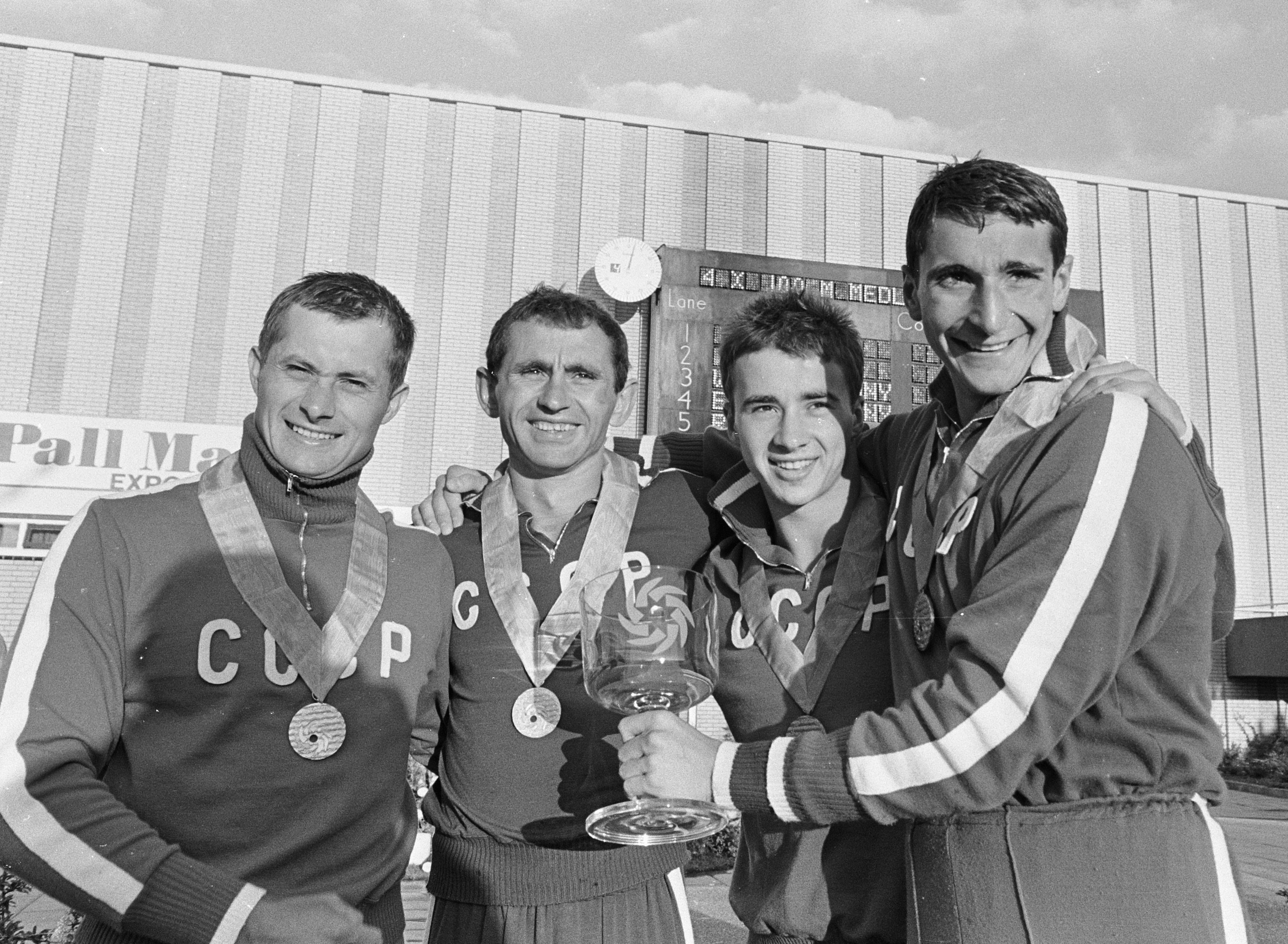 Left-right: Kuzmin, Prokopenko, Ilyichov, Mazanov, European champions in the 4 x 100 m medley